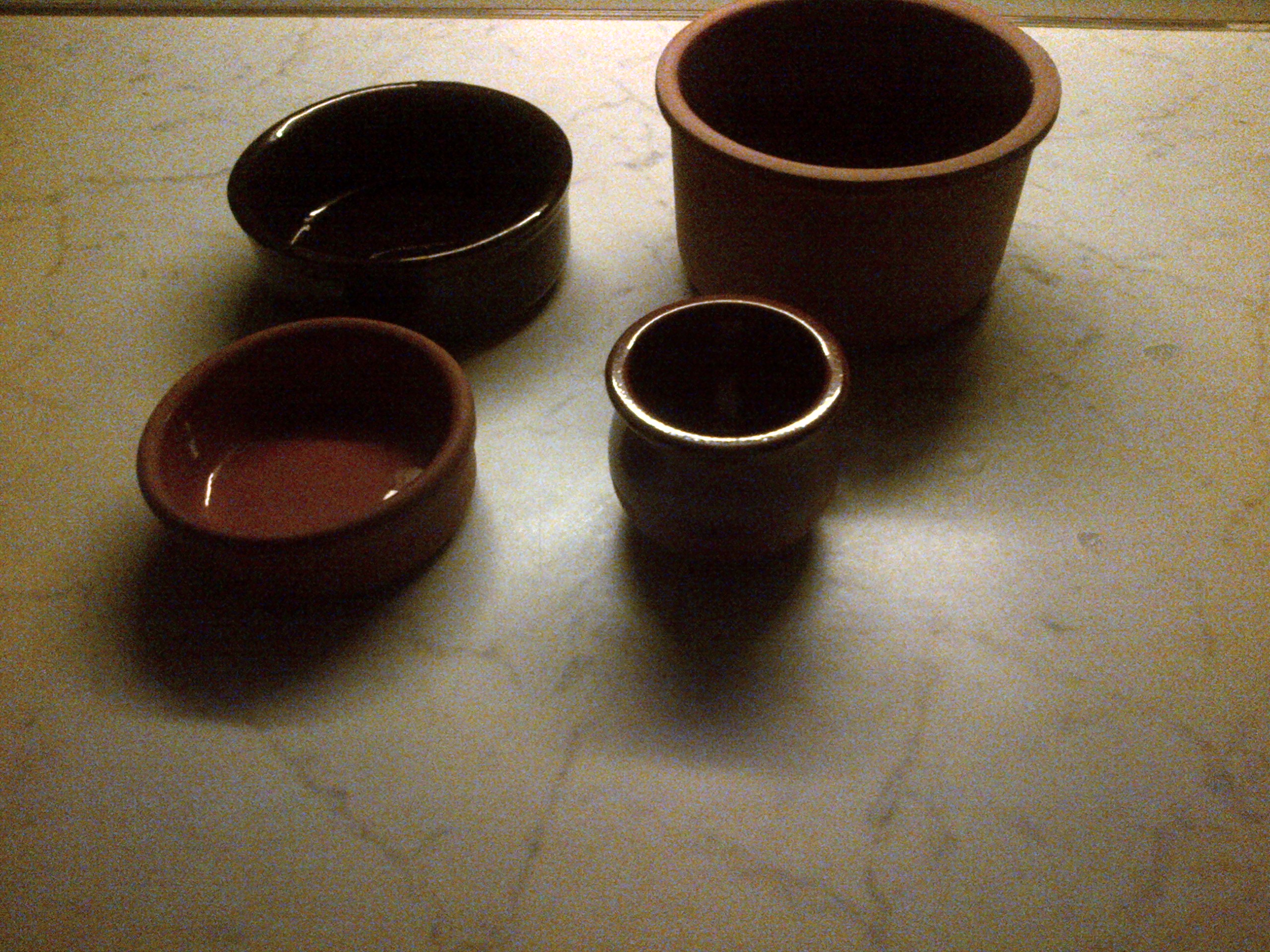 Earthenware çömlek (pots) or "güveç" that are used to make the homonymous Turkish variety of dishes (güveç) like "türlü güveç", "dana güveç", "kuzu güveç", "karides güveç" etc, some of which have entered the cuisines of the neighbouring Balkan countries also.